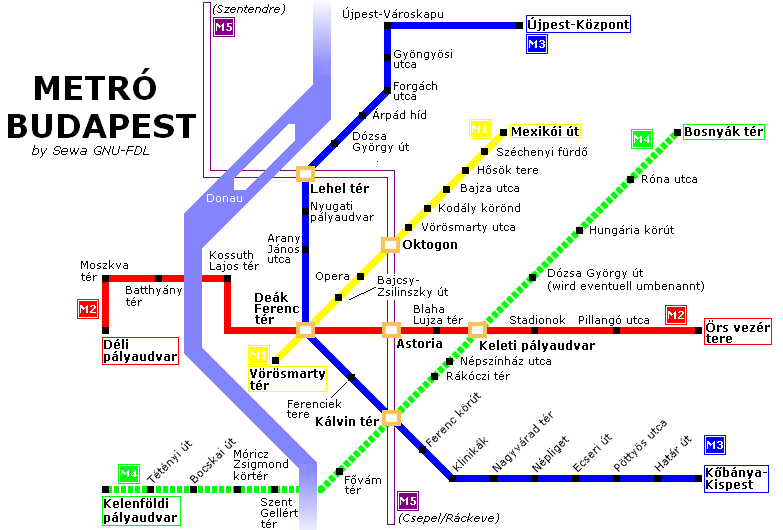 Map of the Budapest metro